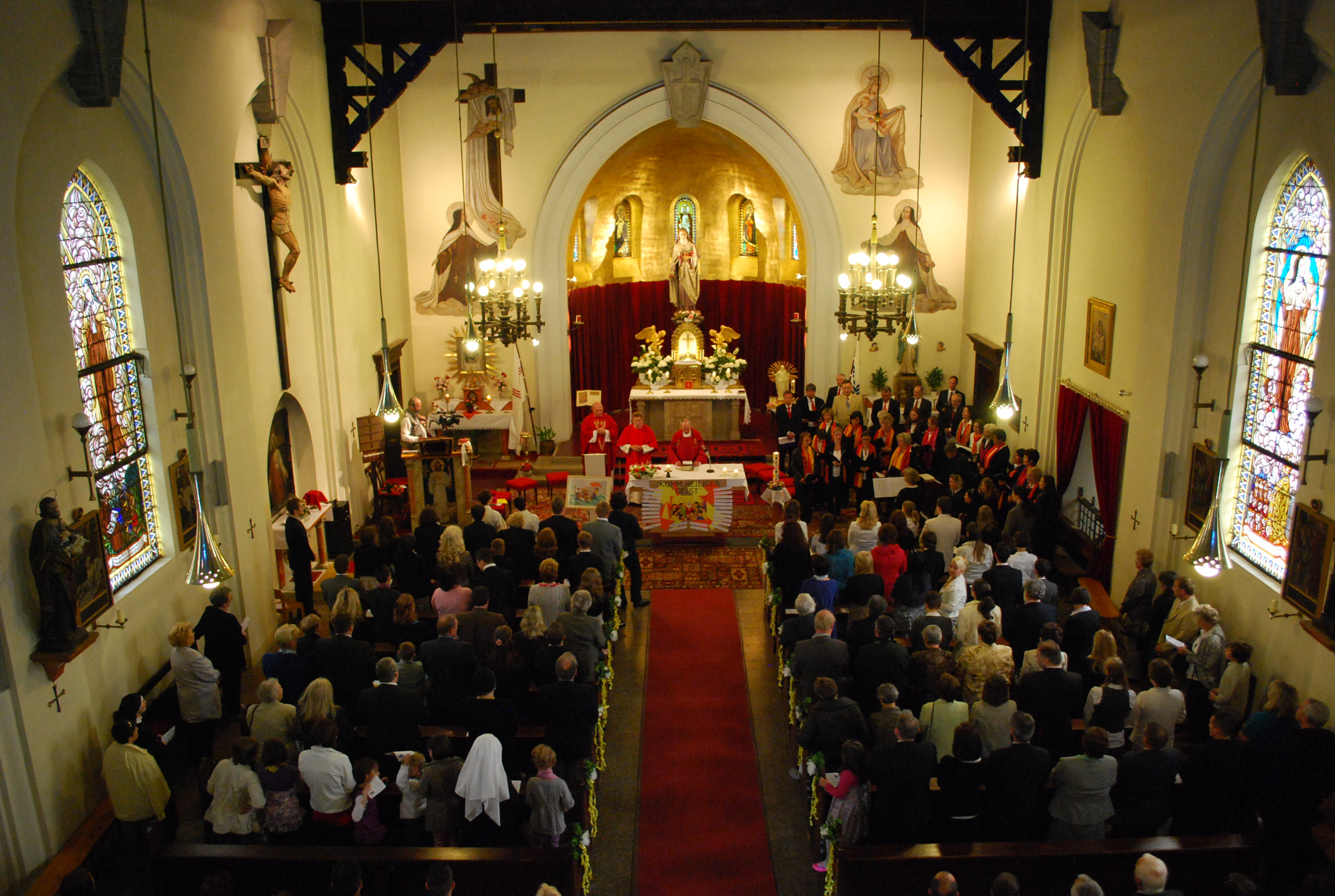 Hall of the Starchant church / Vienna